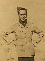 Alan Moorehead and Alexander Clifford